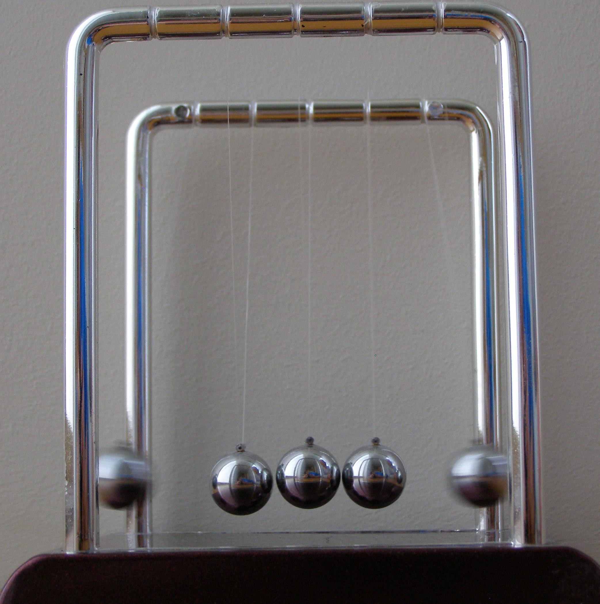 Newton´s cradle